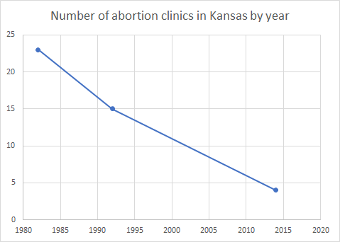 Number of abortion clinics in Kansas by year. Created using data linked on .